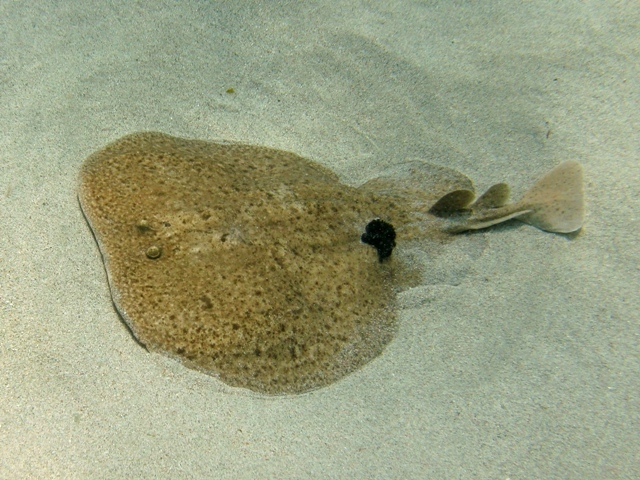 Marbled electric ray (Torpedo marmorata) off Corsica, France